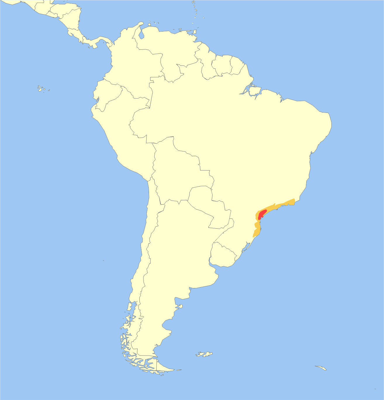 Geographic Distribution of Small Red Brocket (Mazama bororo). Extant Probably extant